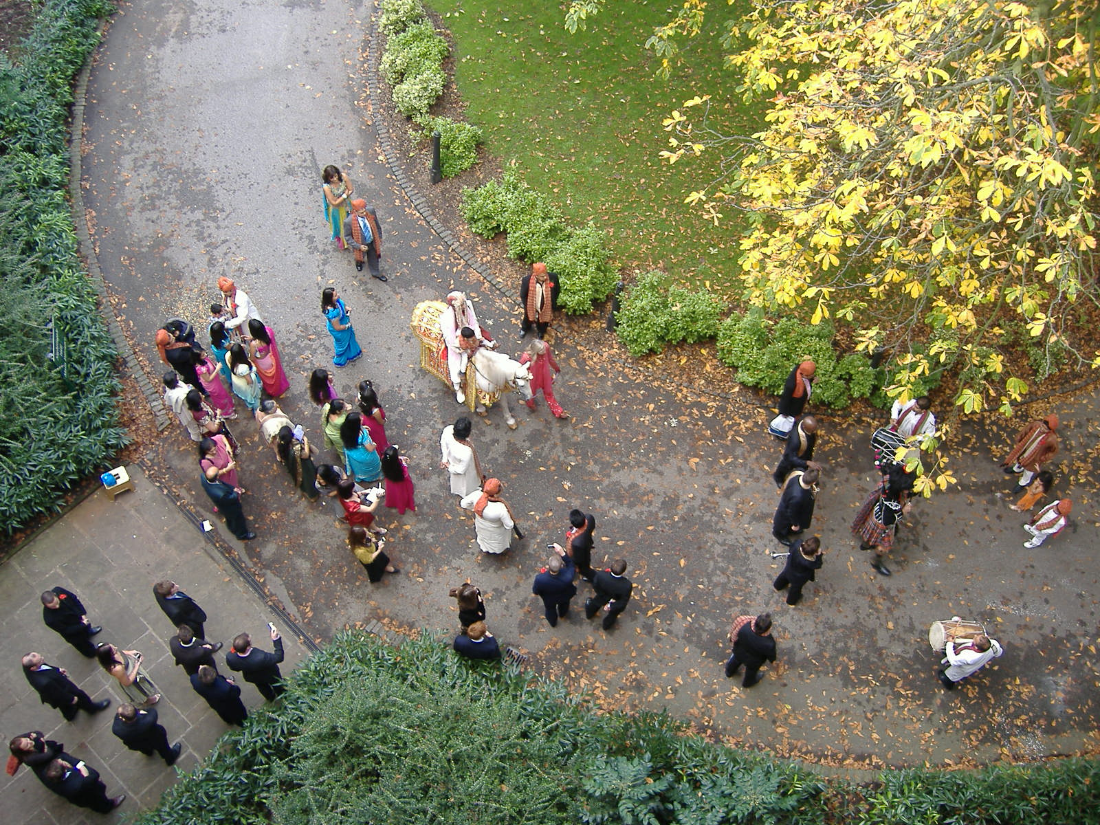 A traditional Indian wedding outside Nightingale Hall in Nottingham.